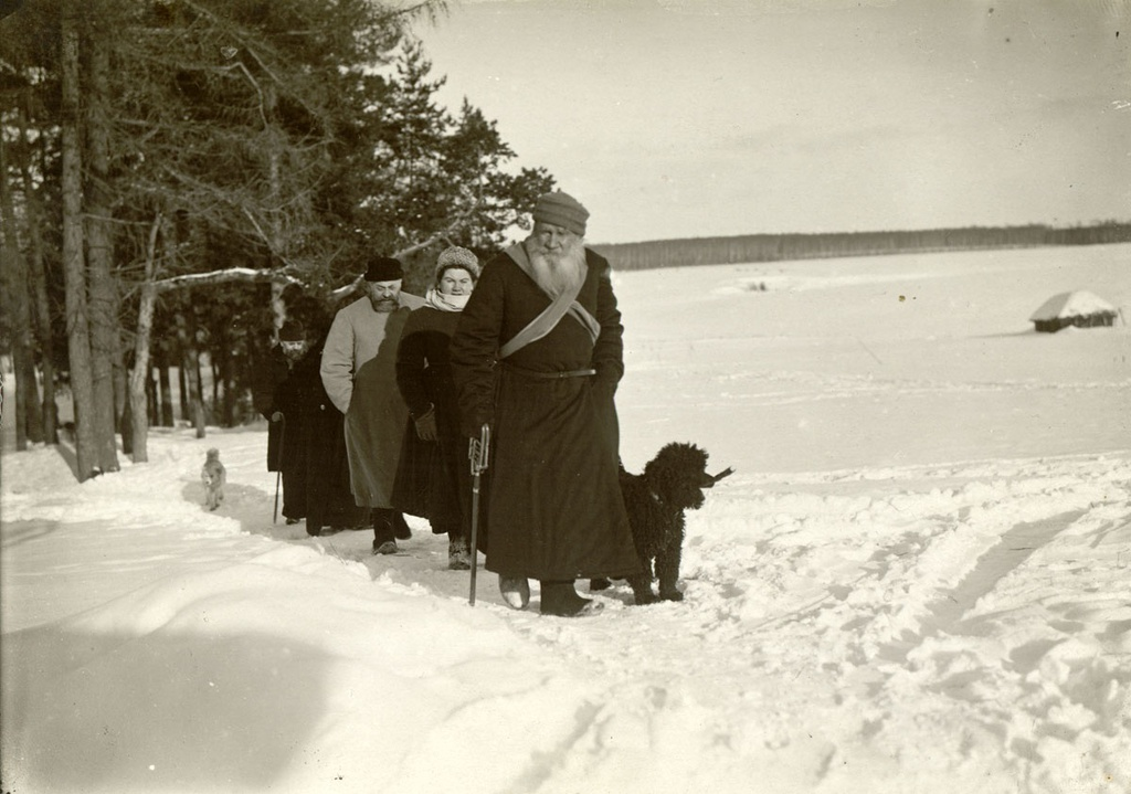 Going to the opening of the library in the village of Yasna Polyana: Tolstoy, Alexandra Tolstaya, the Chairman of the Moscow society of literacy Paul Dolgorukov, Tatyana Sukhotina, Barbara Theokritoff, Paul Biryukov. 31 January 1910. Photo by A. I. Savelyev Black poodle Marquis belonged to the youngest daughter of the wrighter Alexandra Lvovna Tolstaya.